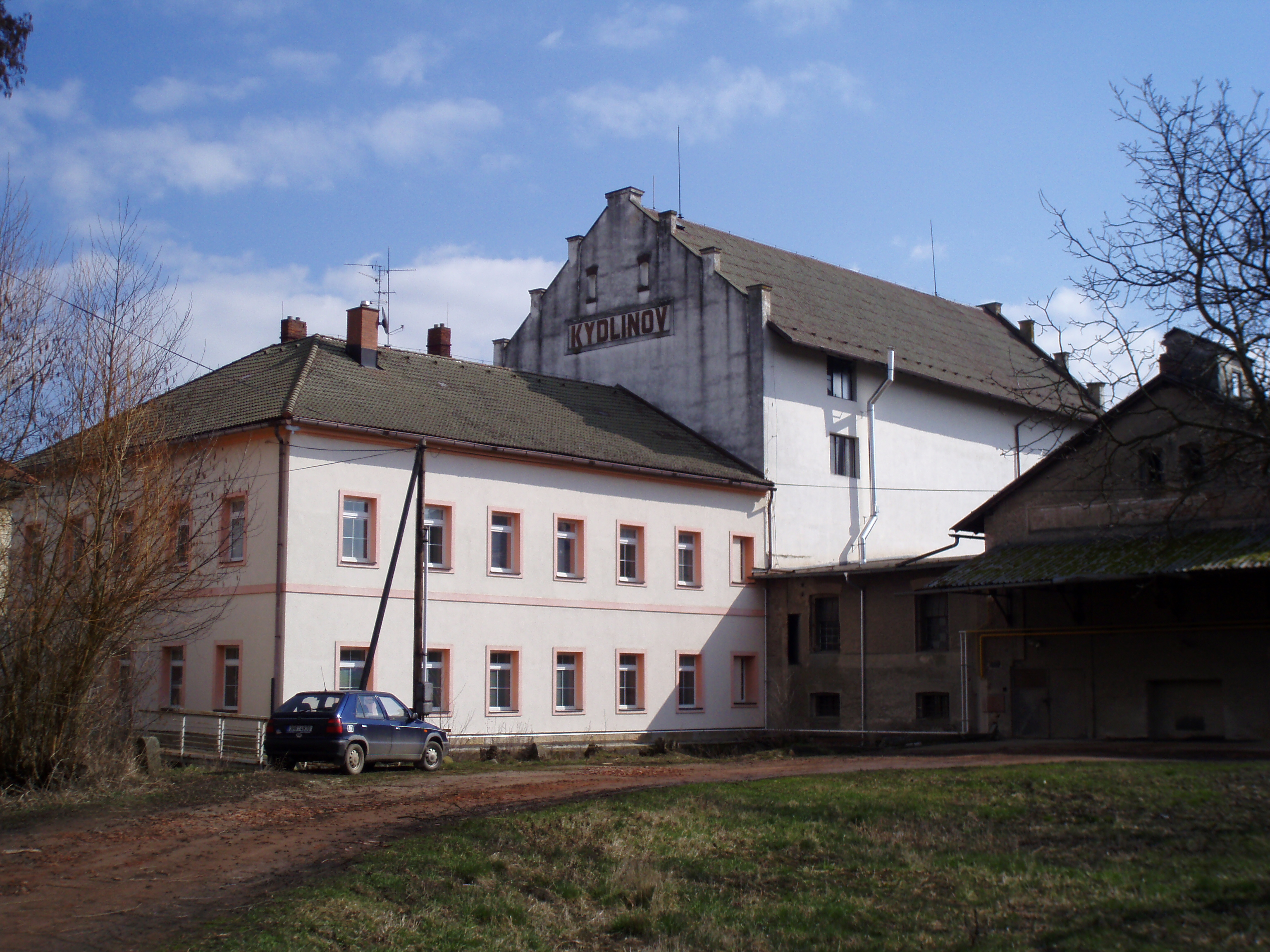 Farm in Kydlinov (Hradec Králové, Czechia)